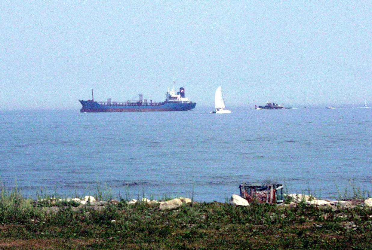 21614-A view from Odiorne Point State Park